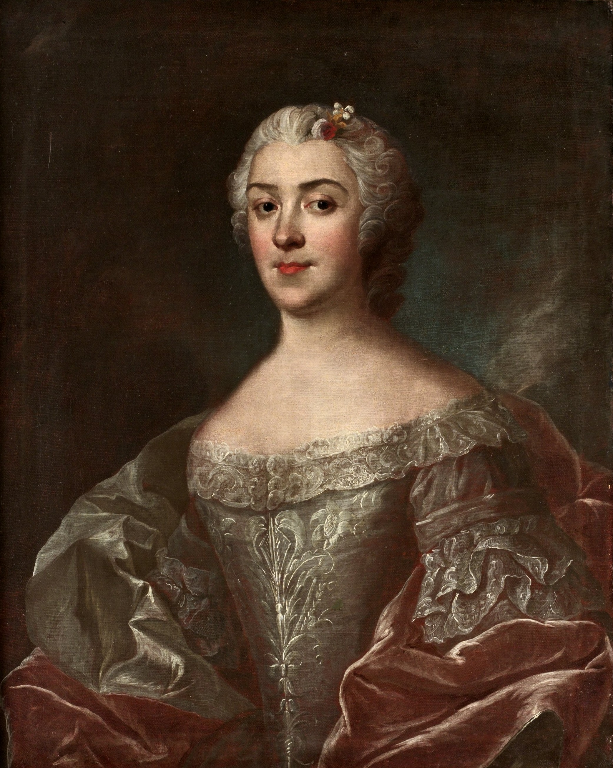 Kristina Horn of Åminne was married to Count Fredrik Lorentz Bonde of Säfstaholm (1715-1783)